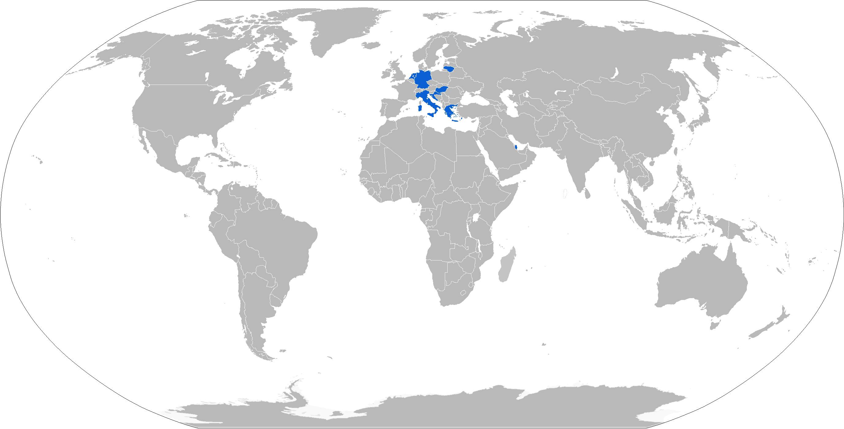 Map of PzH 2000 operators in blue